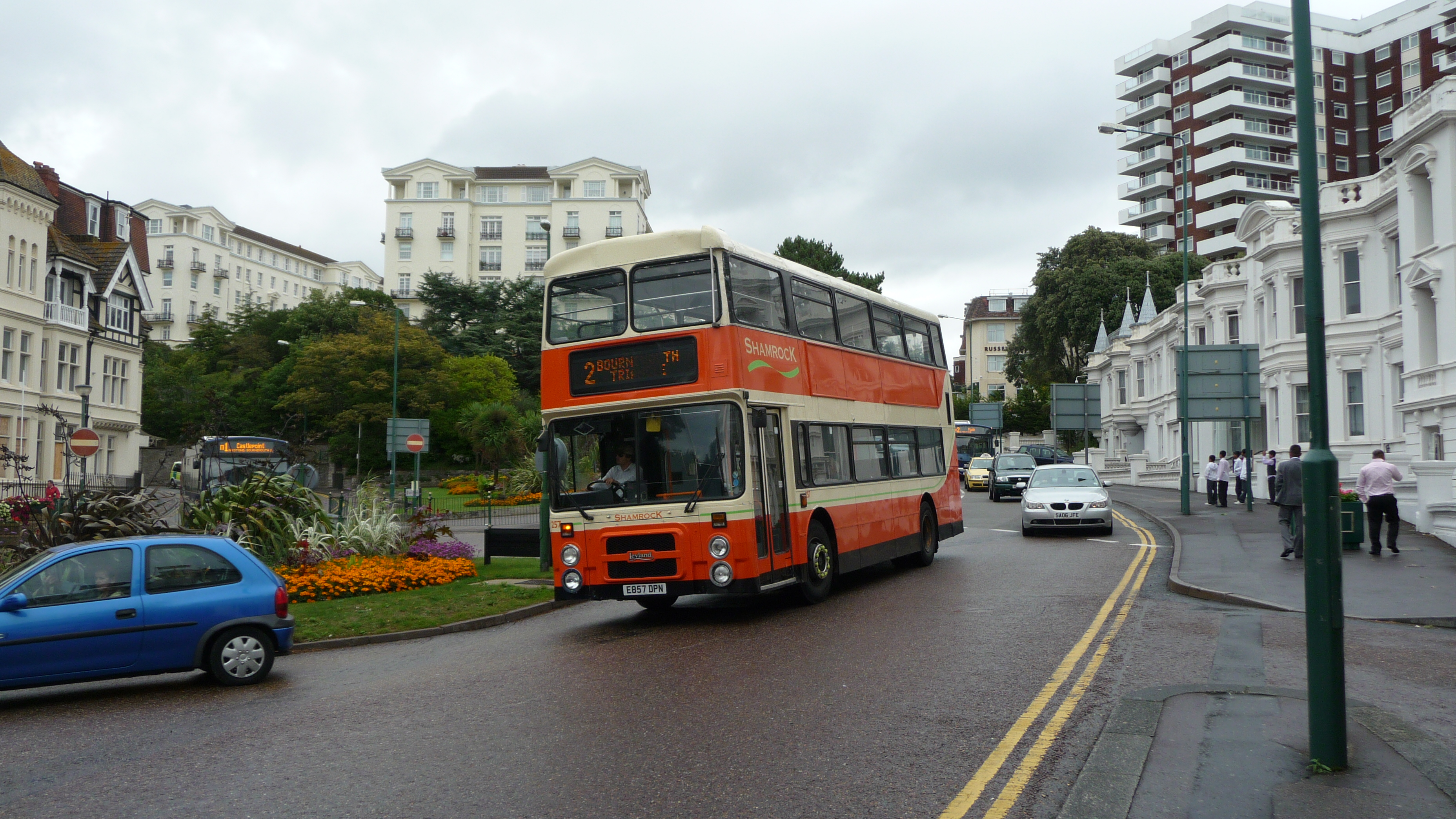 Shamrock Buses 257 (E857 DPN), a Leyland Olympian/Northern Counties, in Bath Road, Bournemouth, Dorset, on the roundabout heading for the Westover Road exit, on route 2.